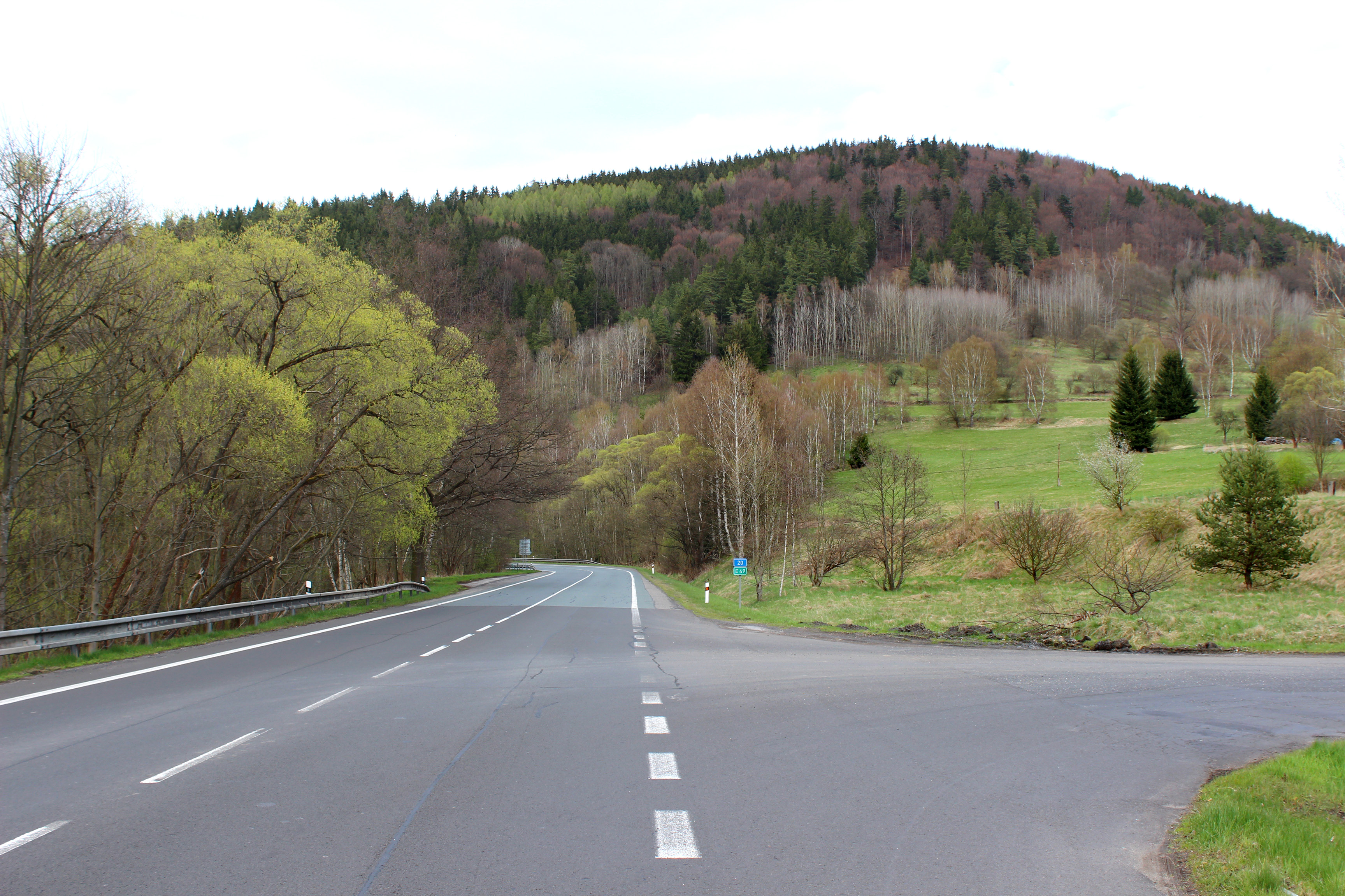 Road No. 20 in Vodná, part of Bečova nad Teplou, Czech Republic